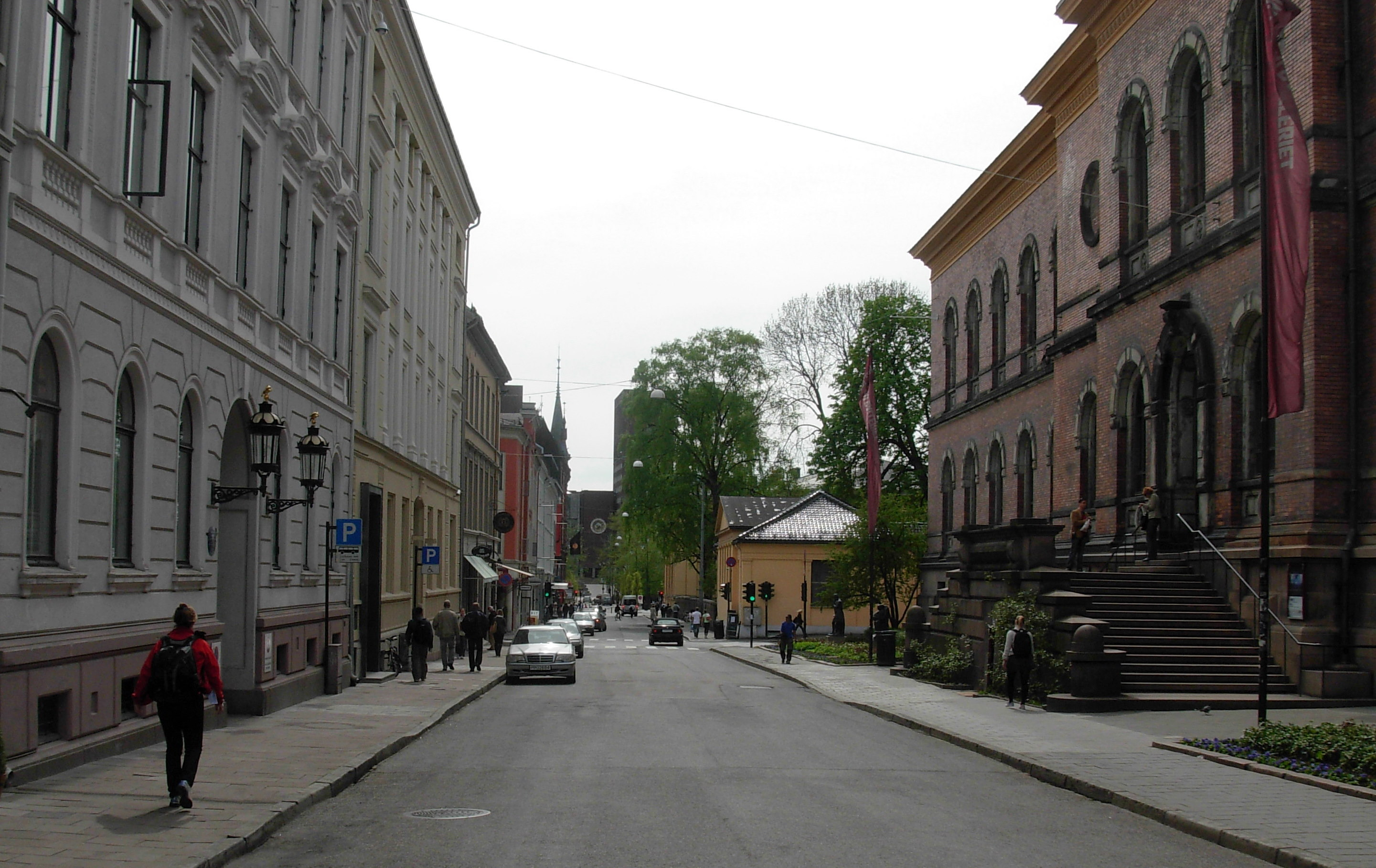 Universitetsgata, Oslo. The National Gallery to the right